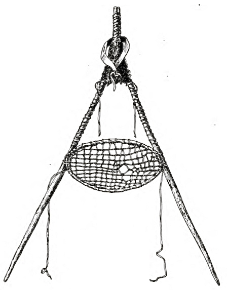 Blackfoot travois. Anthropological Papers of the American Museum of Natural History. Material culture of the Blackfoot Indians. 1910. Clark Wissler. p. 89